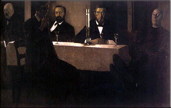 Group portrait of five persons: Architect and designer Thorvald Bindesbøll, art historian Karl Madsen, painter J.F. Willumsen, painter Carl Holsøe and the artist's brother Svend Hammershøj (with pibe).